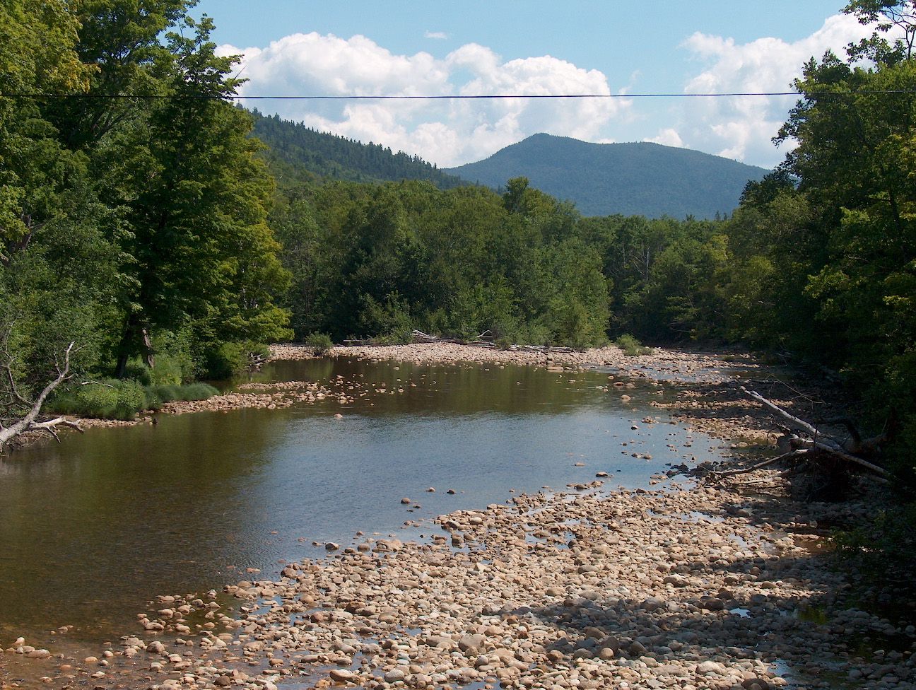 Saco River in Crawford Notch, the White Mountains of New Hampshire.